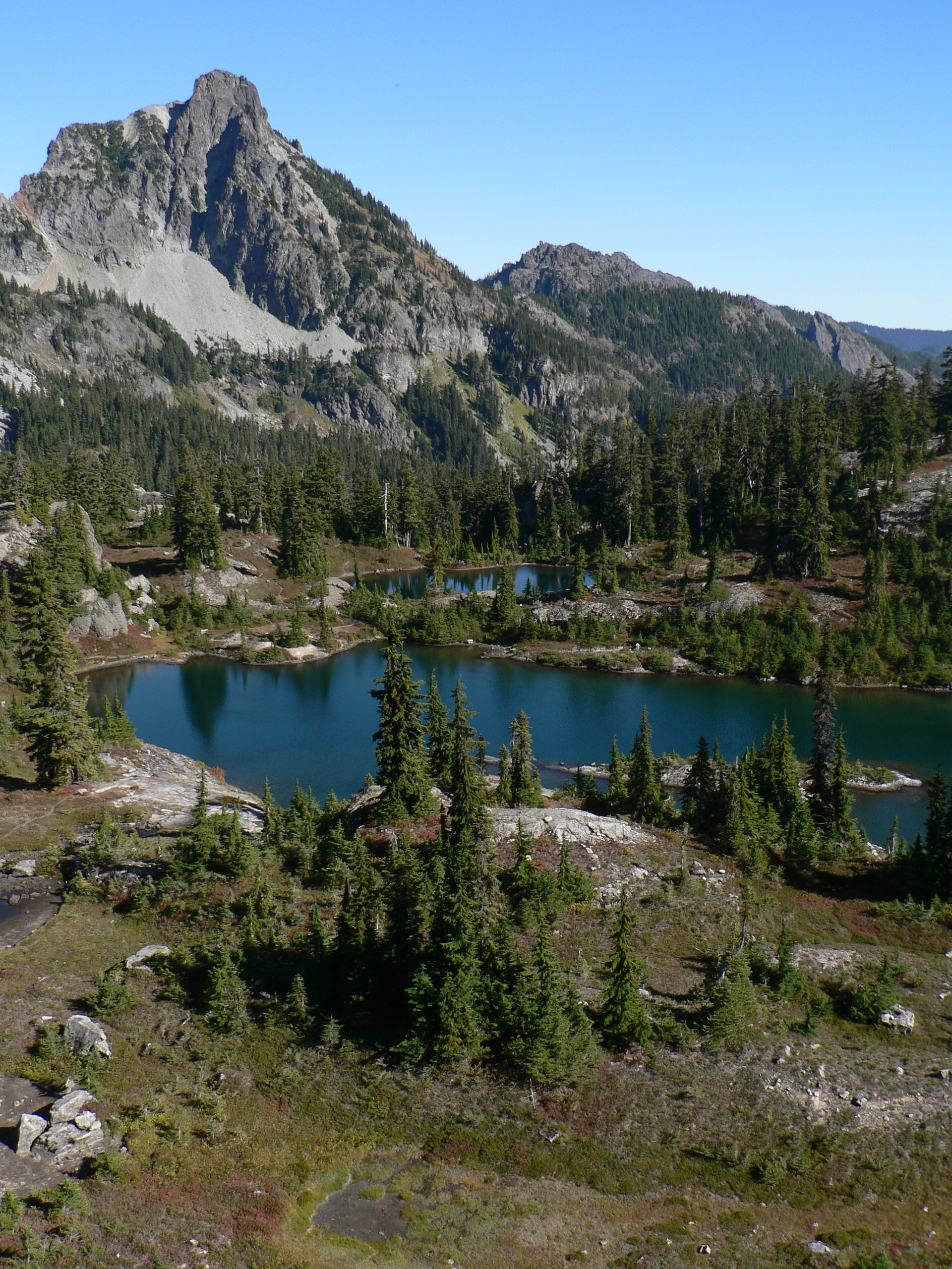 Lila Lake on Rampart Ridge, Hibox Mountain (6547 ft) on Box Ridge, Mountain Hemlock, Kachess Ridge (right skyline)